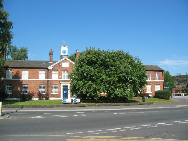 The Salt Museum, Northwich, Cheshire. This used to be the town's old workhouse.